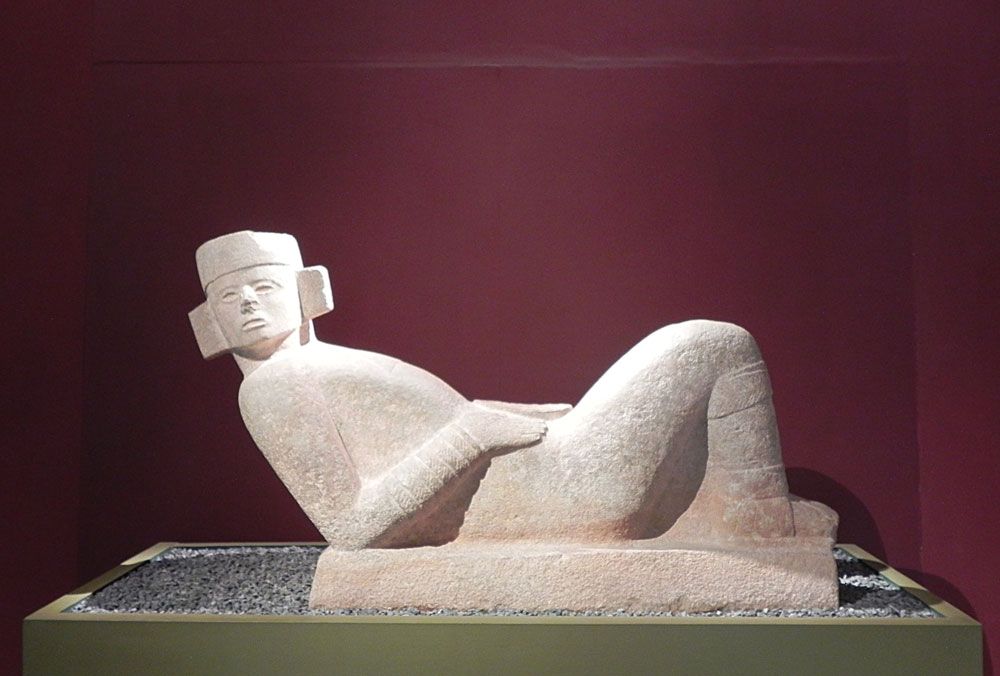 Chac-Mool - 800-900 A.D. - collection of the Museo Yucateco de Antropología e Historia, Mérida